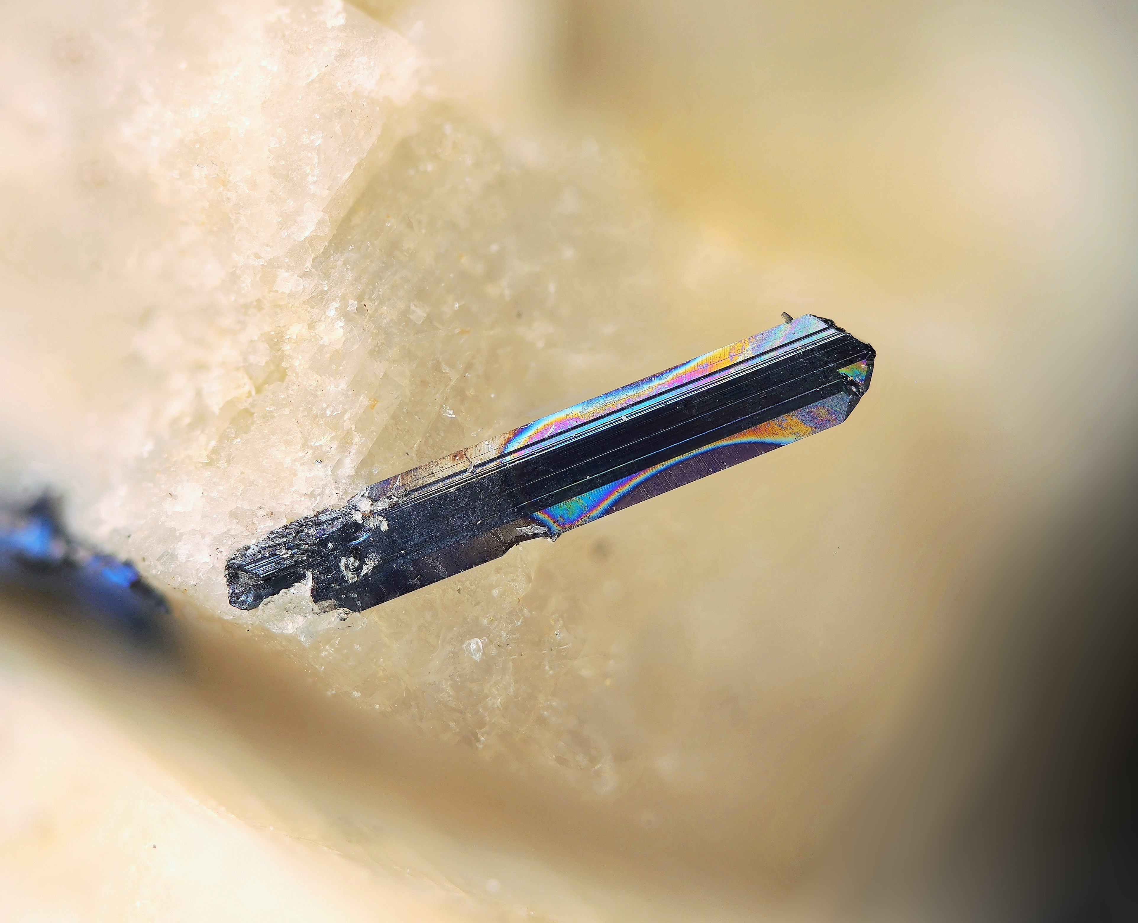 Aenigmatite (Field of view 4.84 mm) Locality: Água de Pau Volcano (Fogo Volcano), Água de Pau Massif, São Miguel Island, Azores District, Portugal Aenigmatite crystal on sanidine.